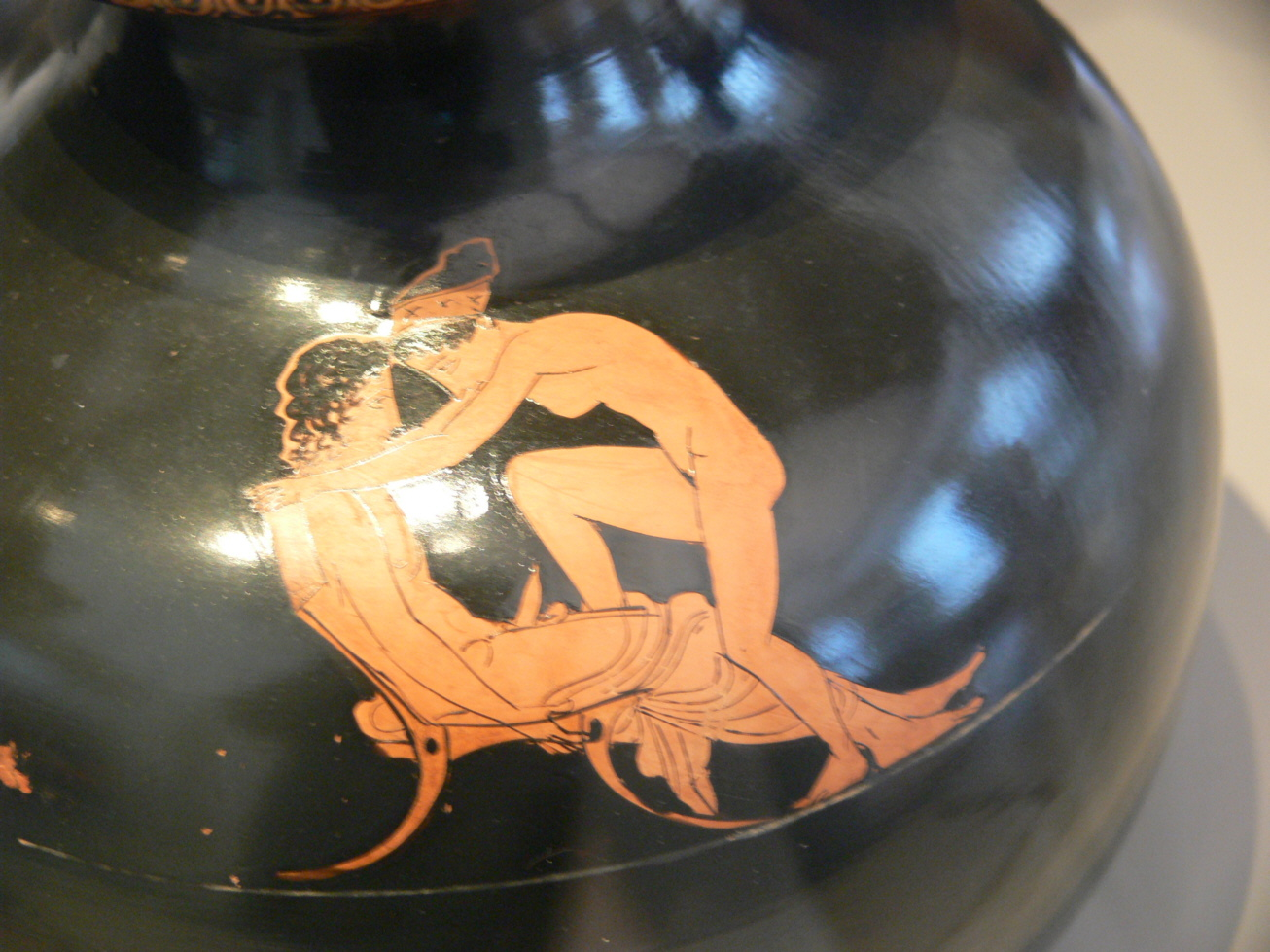 Erotic scene with a young man and a hetaera. Attic red-figure oinochoe, ca. 430 BC. From Locri (Italy).